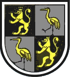 Coat of Arms of Saalburg